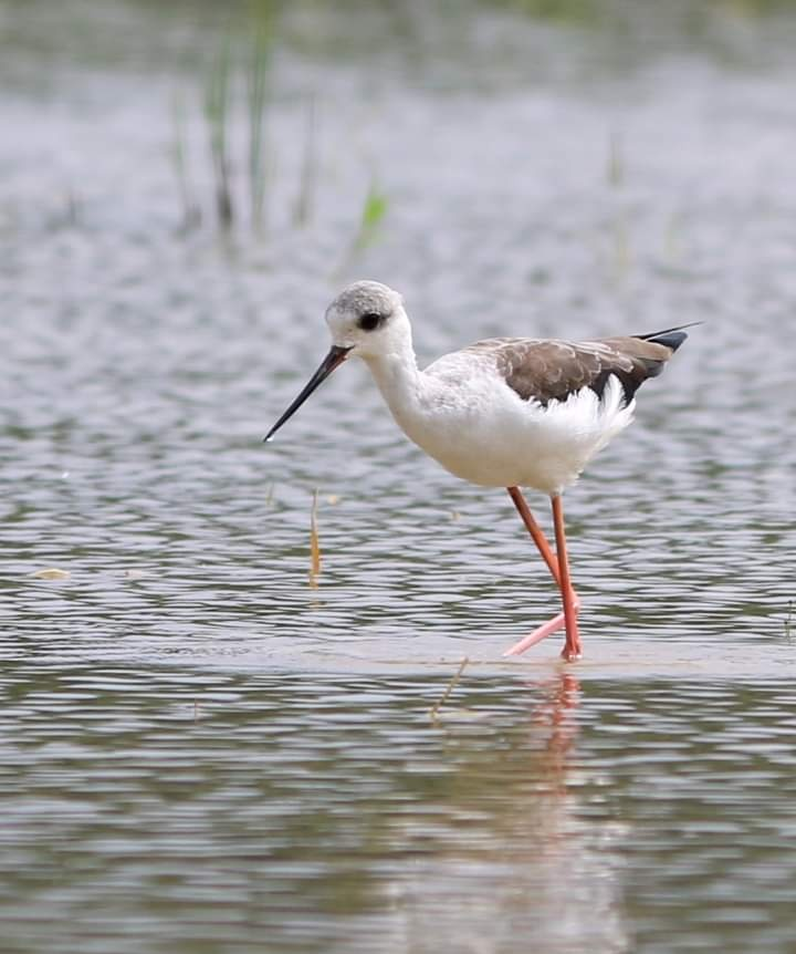 Black winged stilt